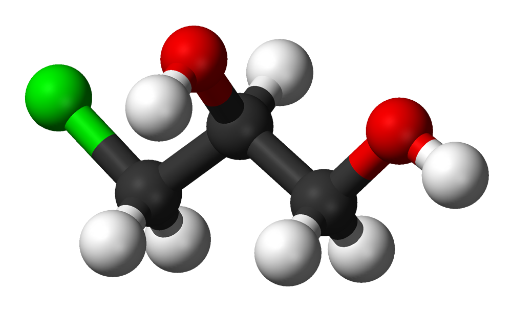 Ball and stick model of the alpha-chlorohydrin molecule.